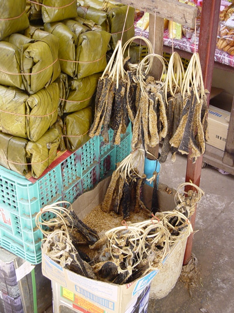 Buffalo skin in Laos (Thakhek, 2003)